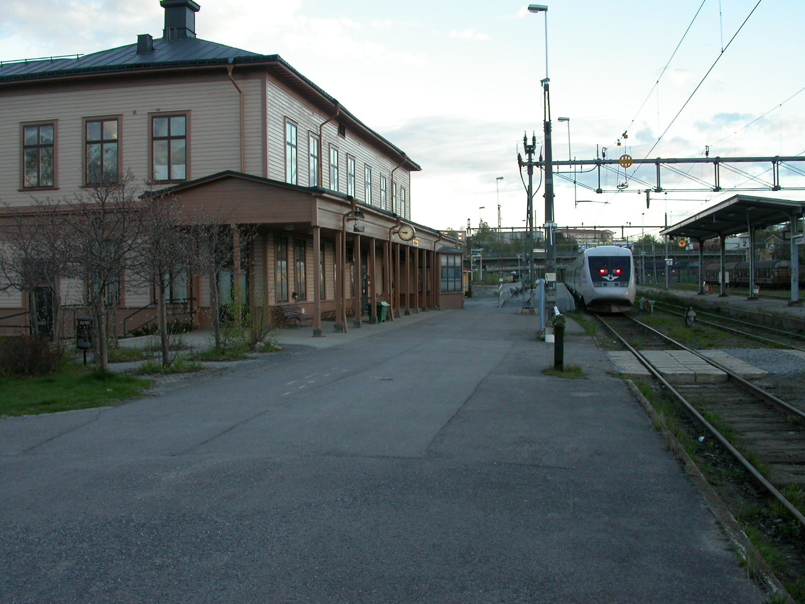 Härnösand railway station